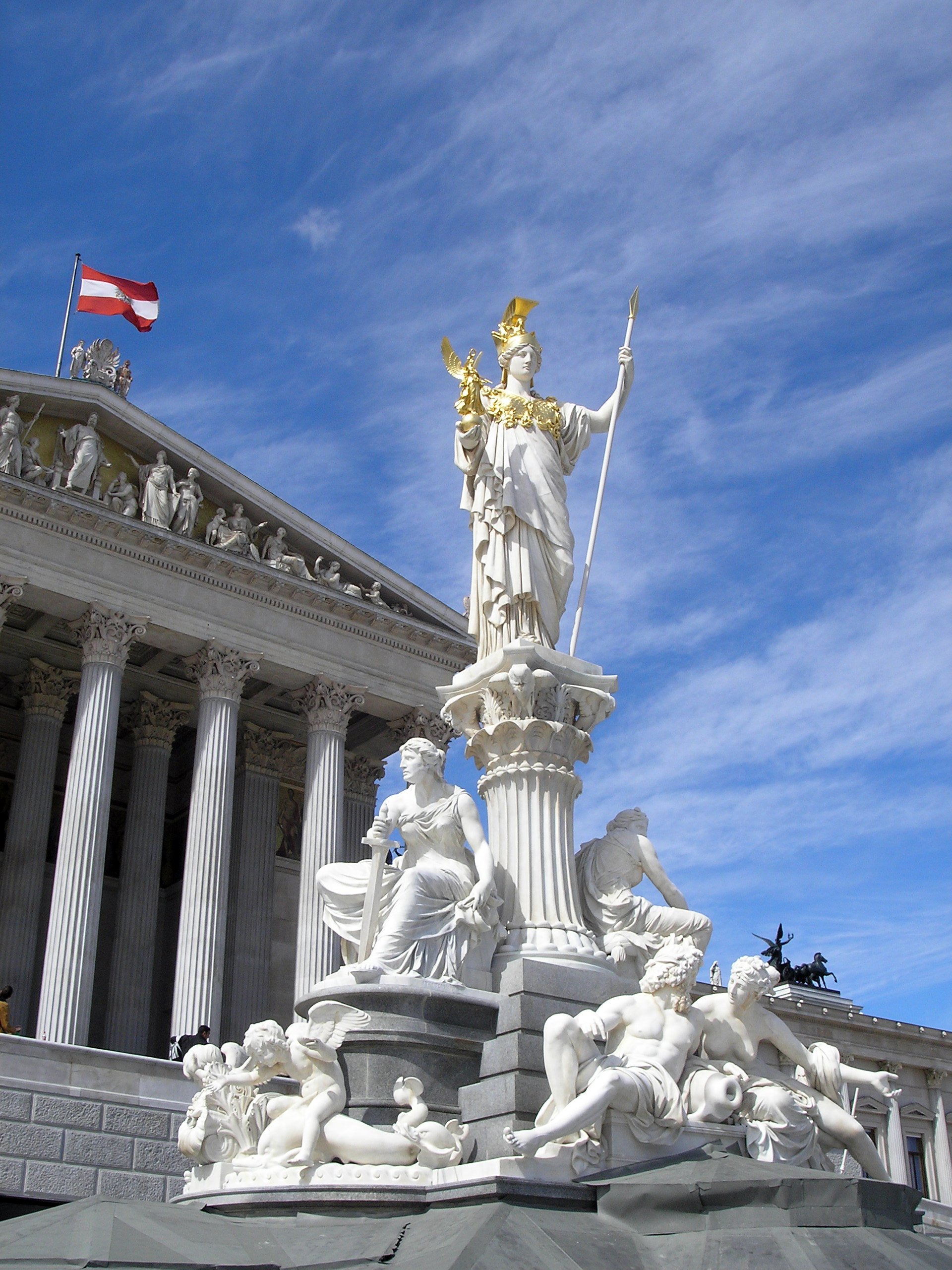 Austria, Vienna, statue of Athena in front of the Austrian Parliament Building